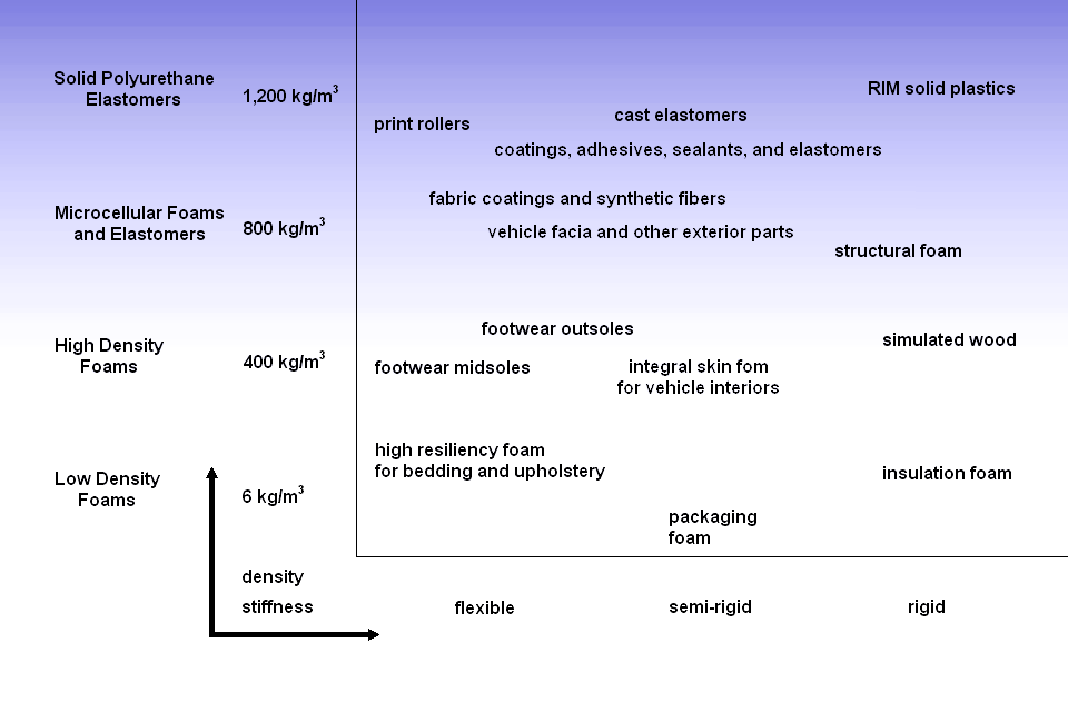 Chart of basic Polyurethane properties